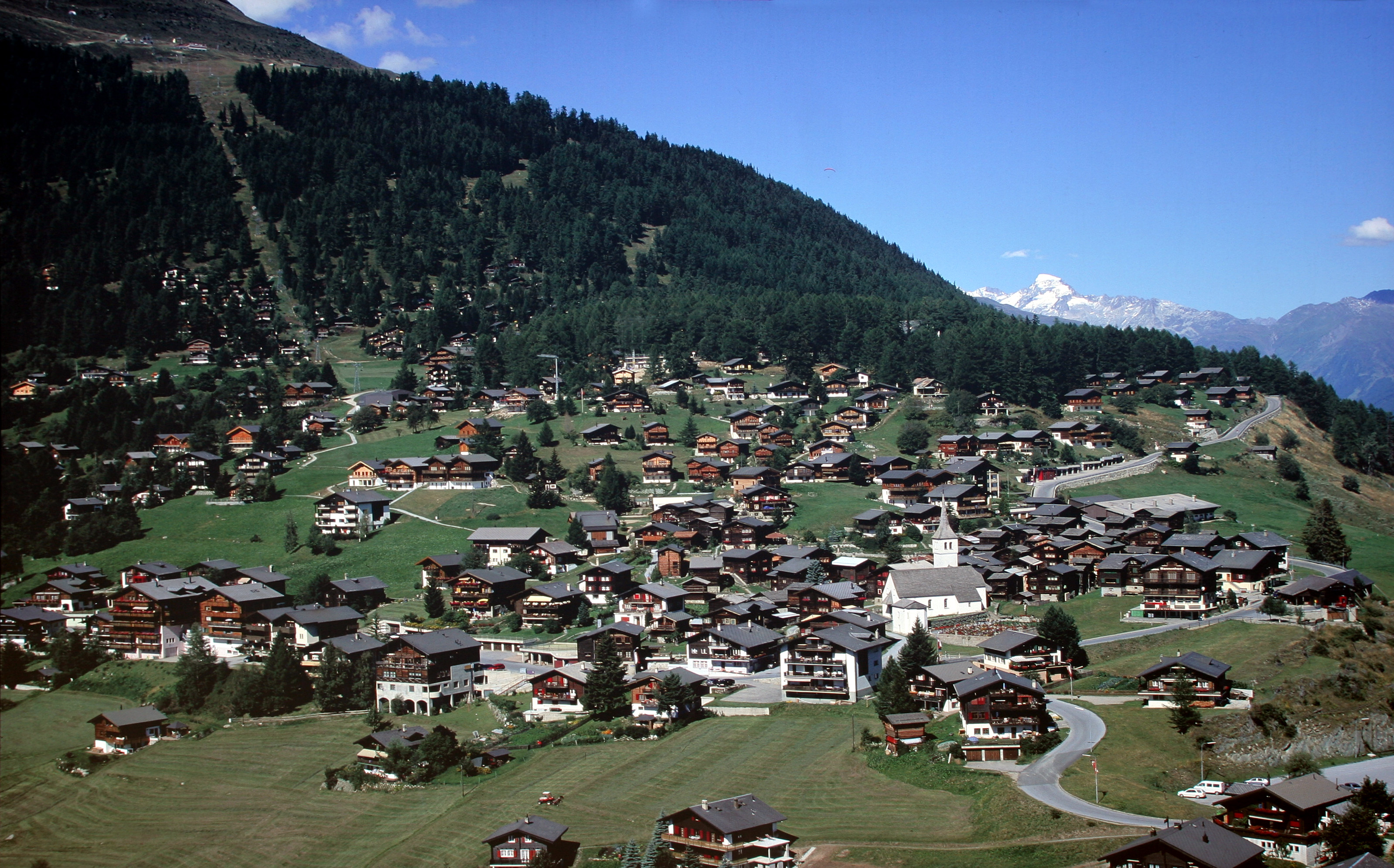 Bellwald in Valais (Switzerland). Railway station and church.